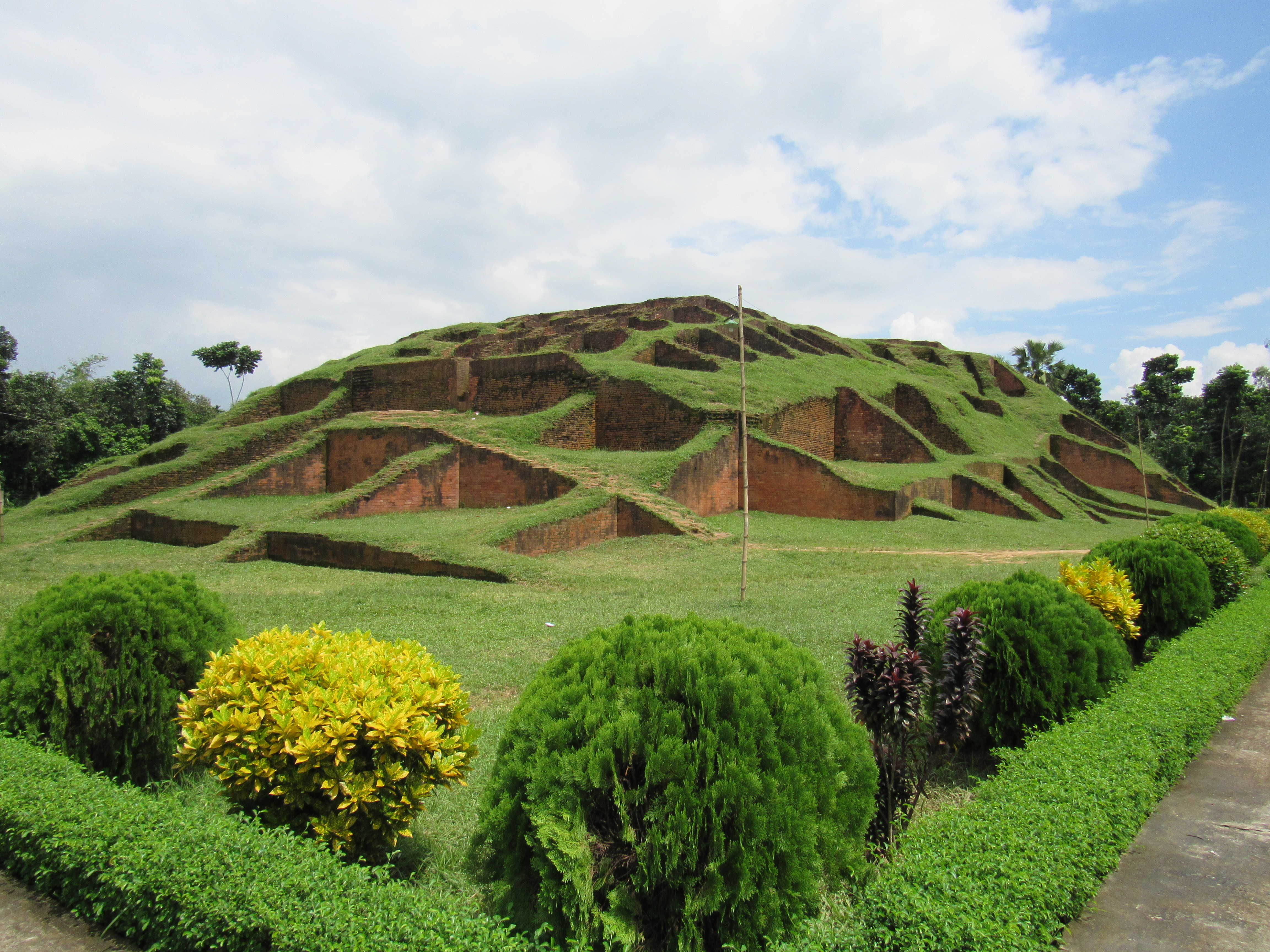 Gokul Medh, Bogra, September 2016